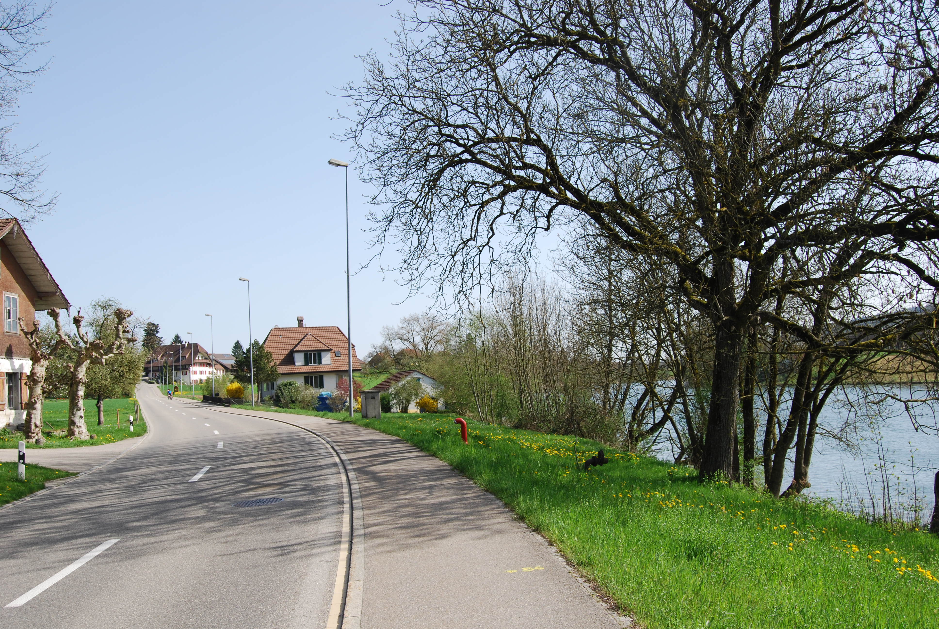 Schwarzhäusern, canton of Bern, SwitzerlandEsperanto: Schwarzhäusern, Kantono Berno, Svislando